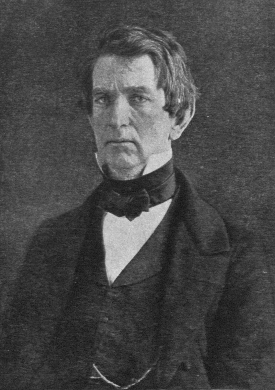 Black and white photographic portrait of William H. Seward (half-length)